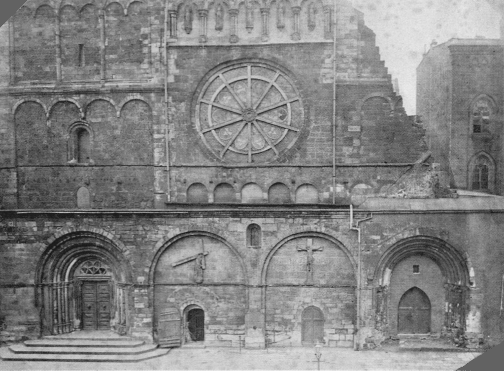 Lower part of the western façade of Bremen Cathedral, photograph before 1887